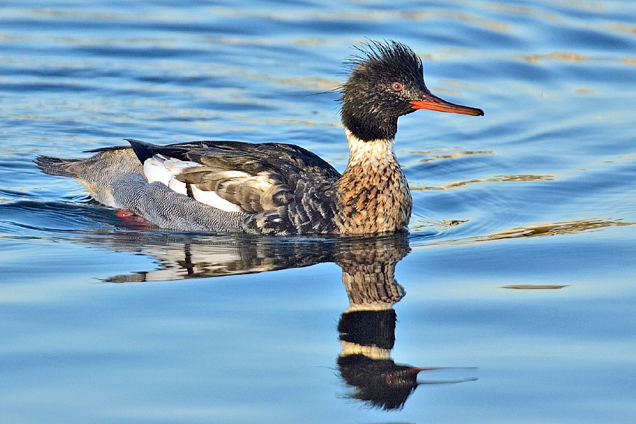 Mergus serrator - Red-breasted Merganser (male), Bolsa Chica Ecological Reserve, Huntington Beach, California